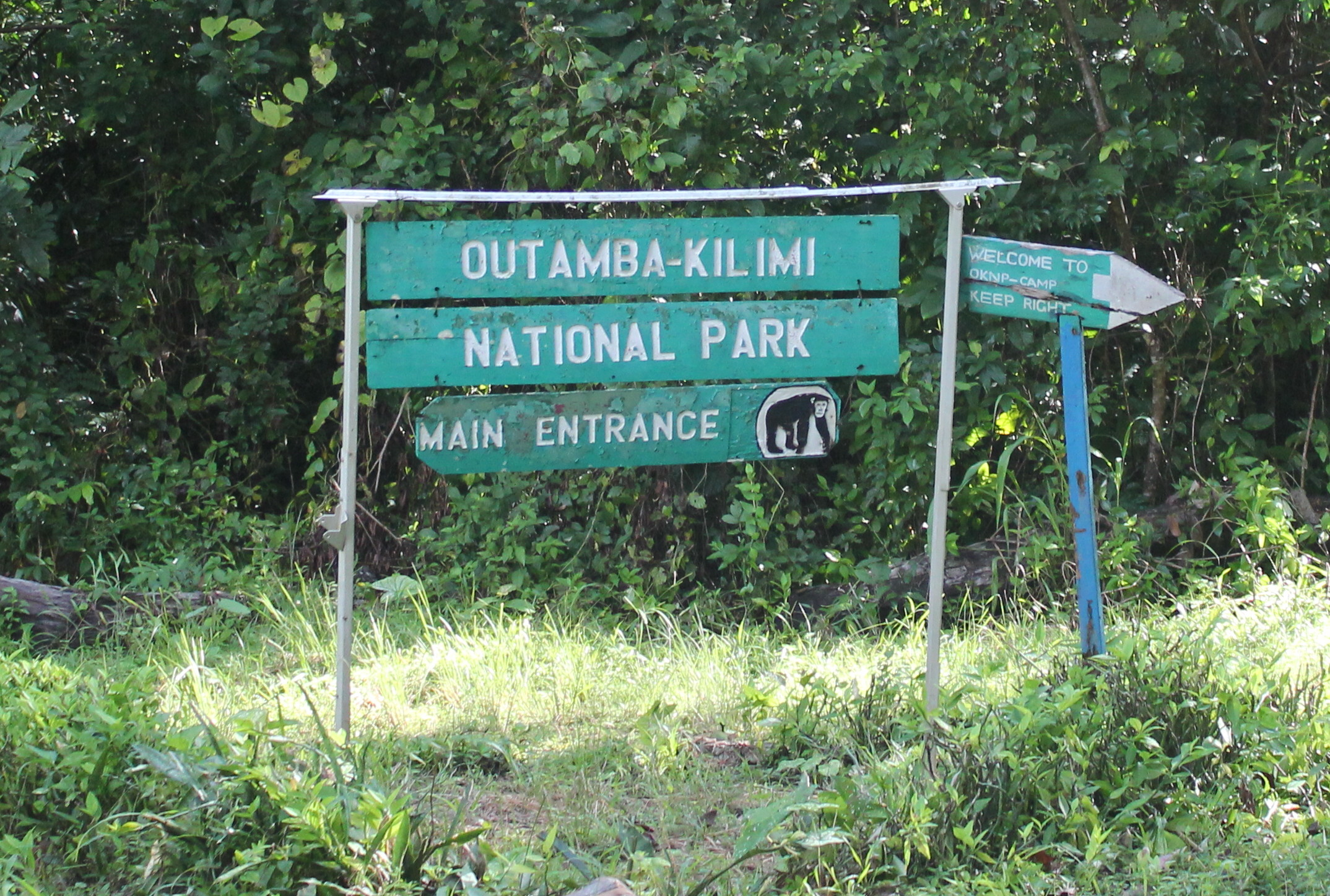 The second last sign before Outamba-Kilimi National Park in Sierra Leone. More at